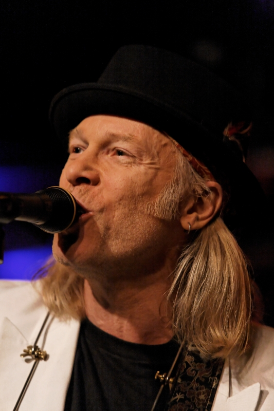 Elliott Murphy au New Morning